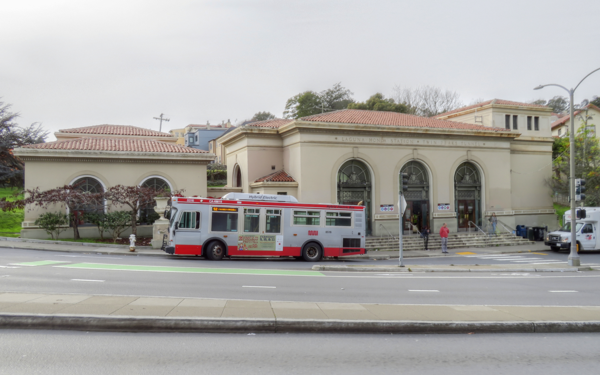 Headhouse of Forest Hill station in January 2018, with a Muni route 52 bus and a paratransit shuttle visible